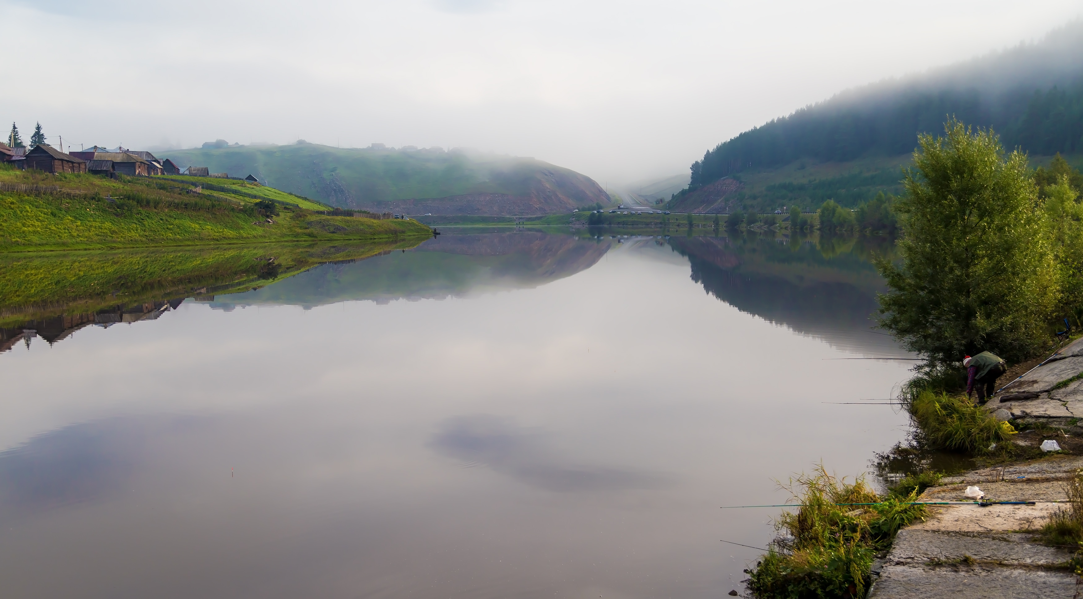 Morning Kaga, Bashkortostan, Russia.